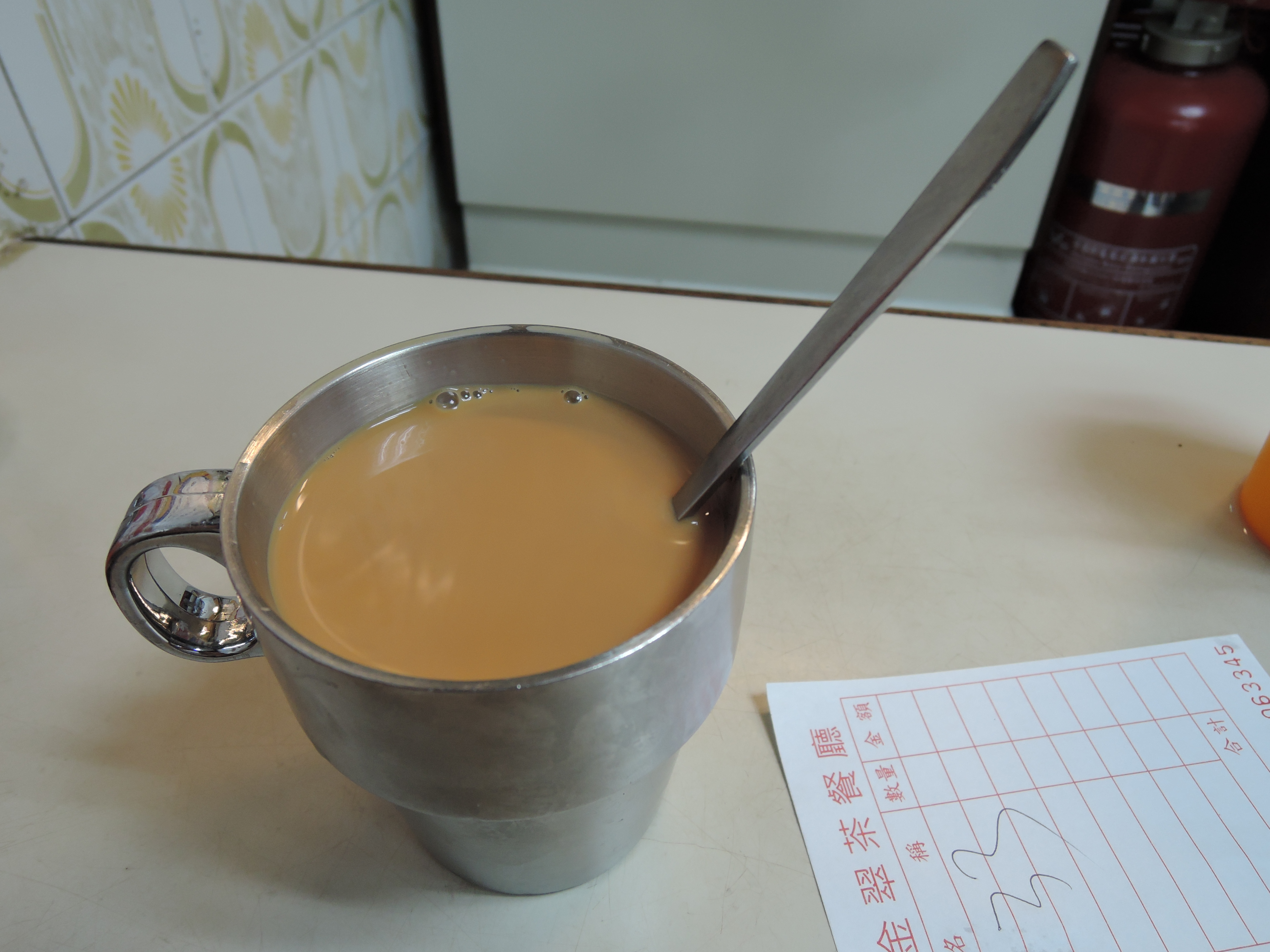 Hong Kong style milk tea with set of breakfast in local Chinese restaurant